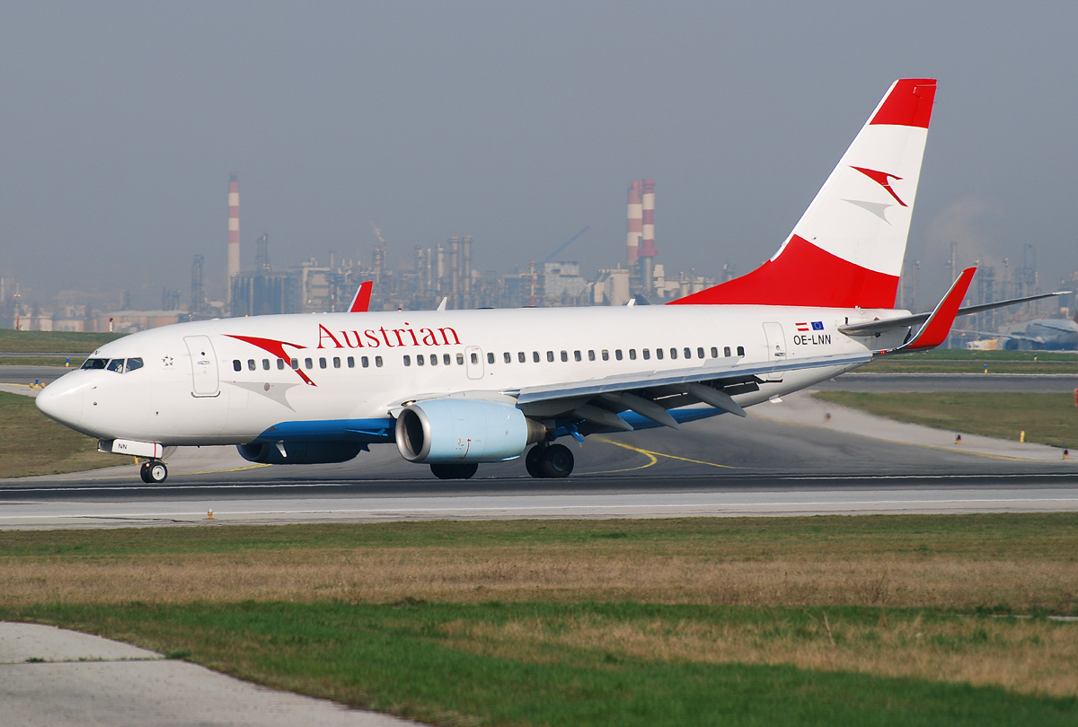 Austrian Airlines Boeing 737-7Z9 OE-LNN; former Lauda Air aircraft at Vienna International Airport